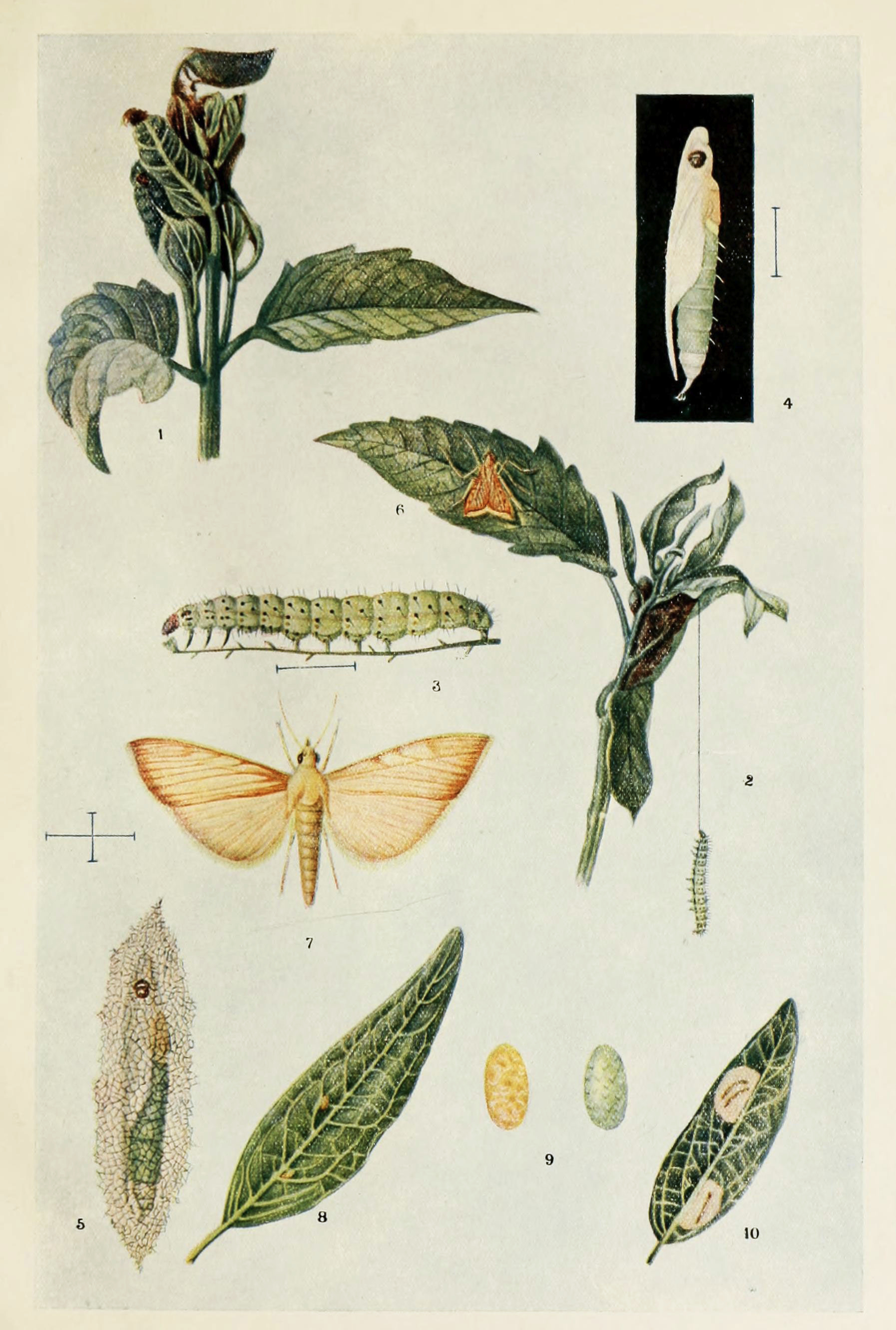 Picture from book Indian Insect Life: a Manual of the Insects of the Plains by Harold Maxwell-Lefroy.